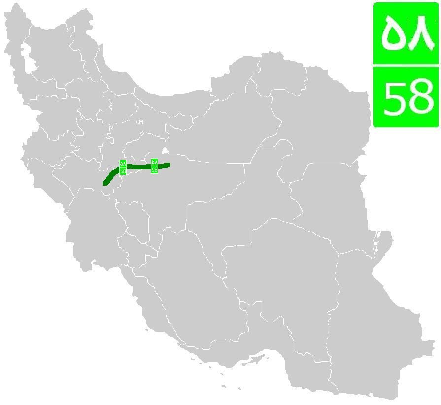 Location of Road 58 in Iran